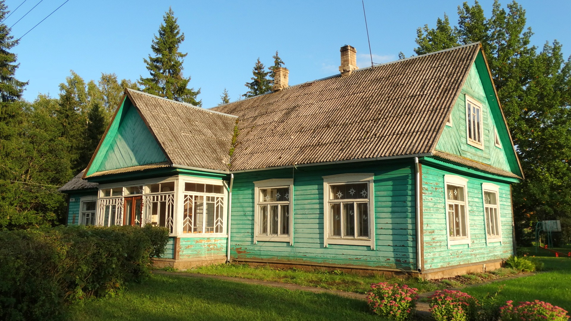 Baibiai, Zarasai district, Lithuania